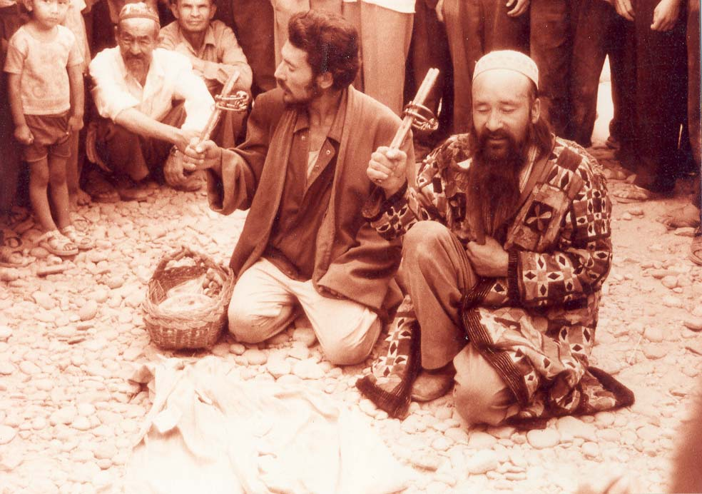 This work is licensed under a Creative Commons Attribution-ShareAlike 2.0 Generic License